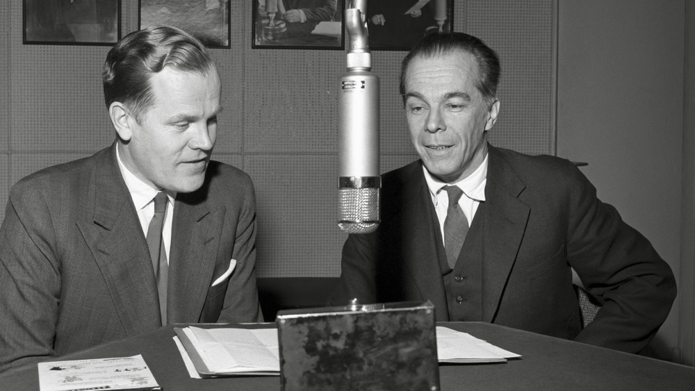 Photograph of the Finnish linguists Eero Saarenheimo (1919–2018) and Matti Sadeniemi (1910–1989) hosting the radio show “Kielitoimisto vastaa” (The language [planning] bureau answers [the questions sent by the general audience]) at Yleisradio, in Helsinki.